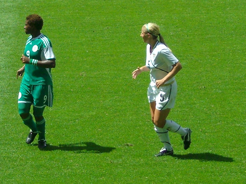 USA-Nigeria at 2010 FIFA U-20 Women's World Cup in Impuls Arena as “FIFA Women's World Cup Stadium Augsburg”: Desire Oparanozie (9) and Kendall Johnson (5).